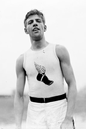 A picture of Harry Hillman from the Chicago Daily News negatives collection, SDN-002610. Courtesy of the Chicago Historical Society. Taken in 1904. Removed from the following pages: Harry Hillman --OrphanBot 07:10, 31 December 2005 (UTC) Category:Dartmouth College people